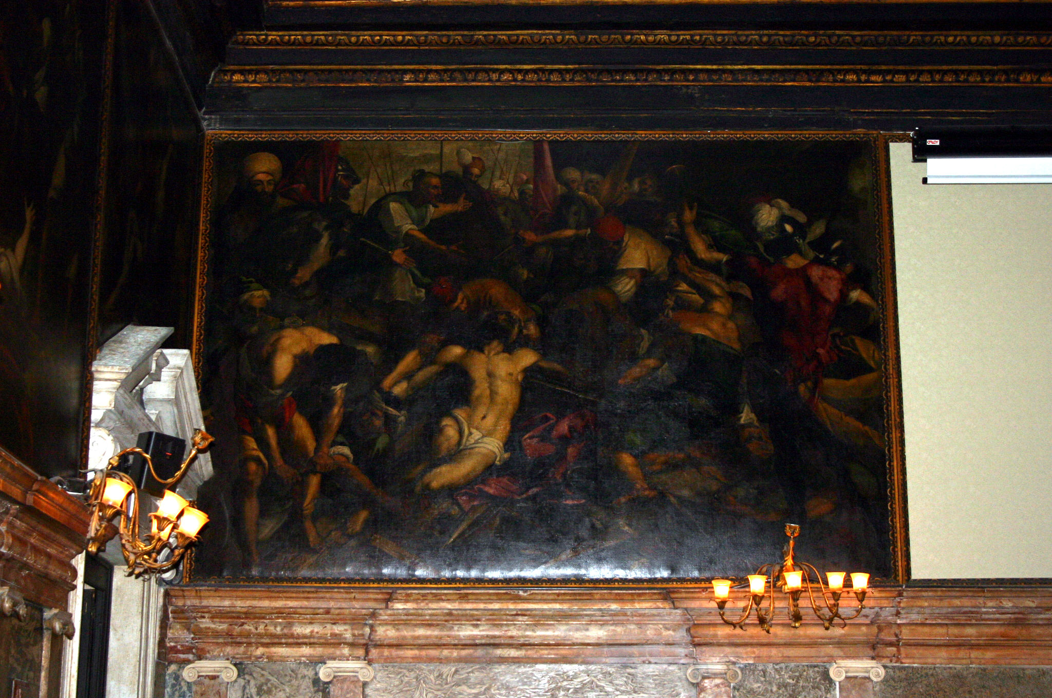 Venice, Scola di san Fantin, Aula Magna. Leonardo Corona, An episode from the Passion of Christ. Picture by Giovanni Dall'Orto, August 12, 2007.